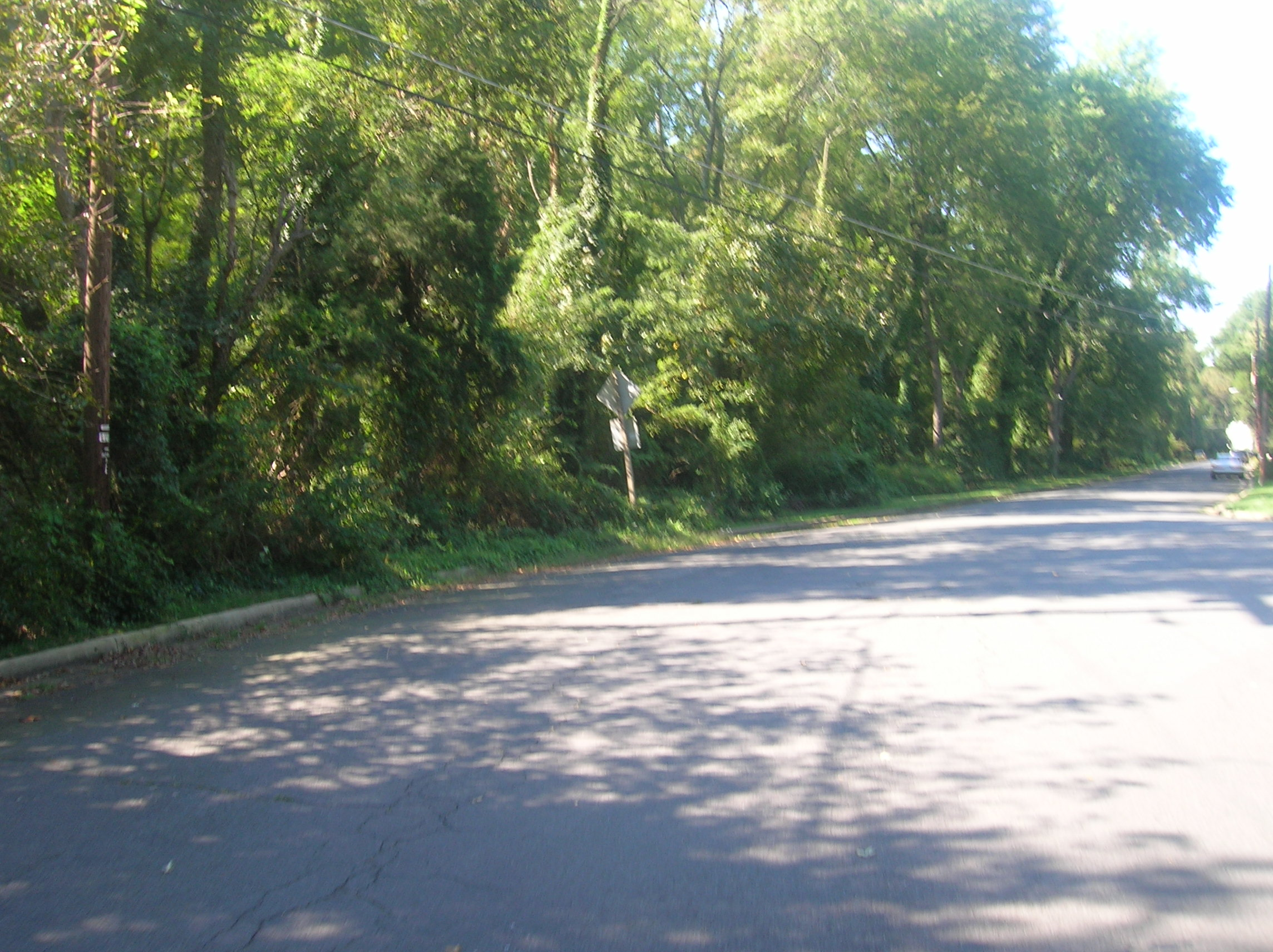 A photo I took for Wikipedia